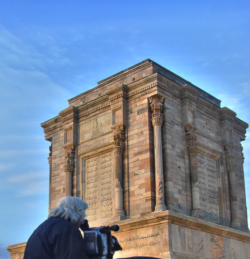 Hamid Mojtahedi in Backstage of IRAN Documentary in Mashhad, Toos